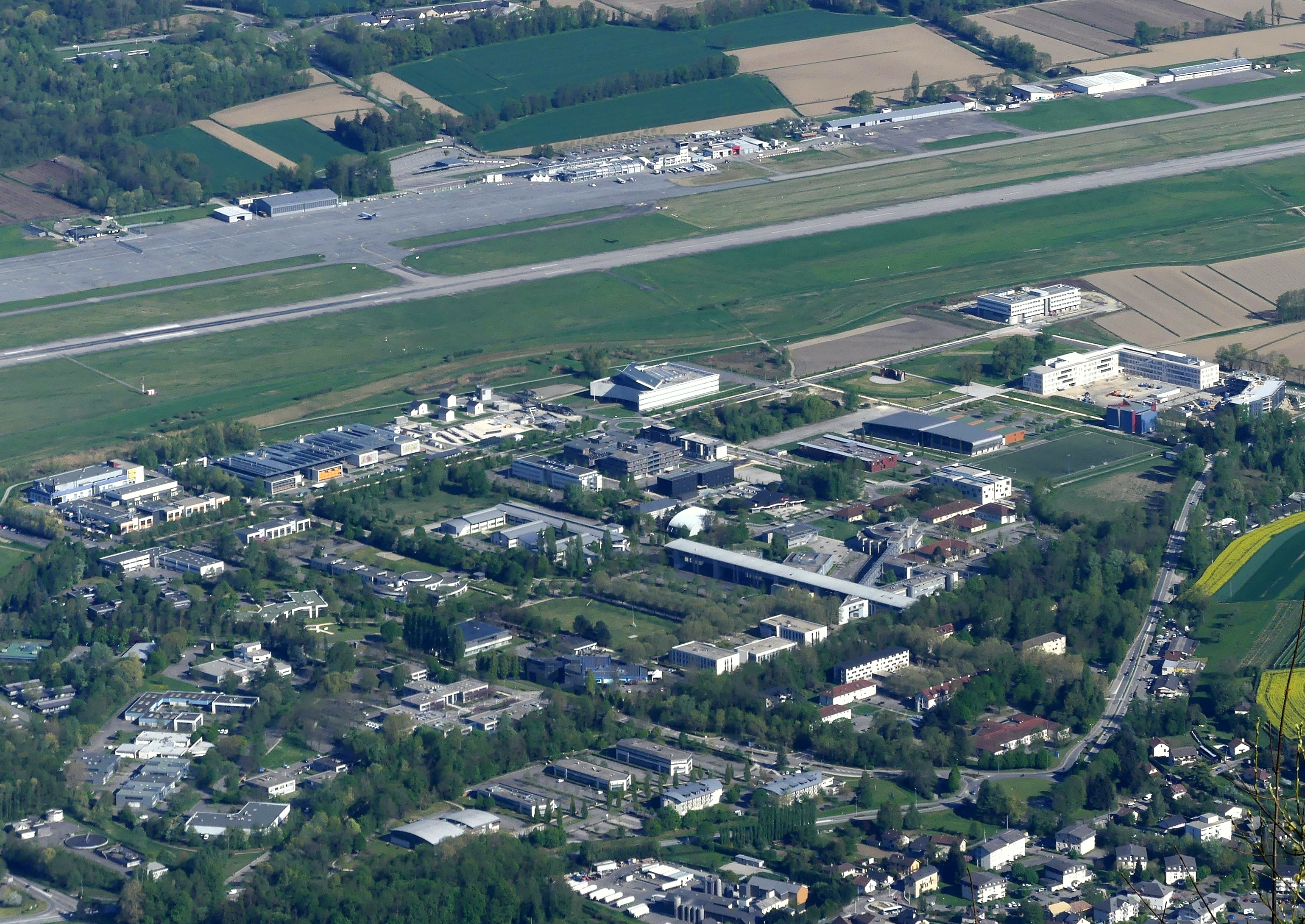 Sight, from the Mont du Chat mountain, of Savoie Technolac technopole, linked to Université de Savoie university, in Le Bourget-du-Lac between Chambéry and Aix-les-Bains in Savoie, France.